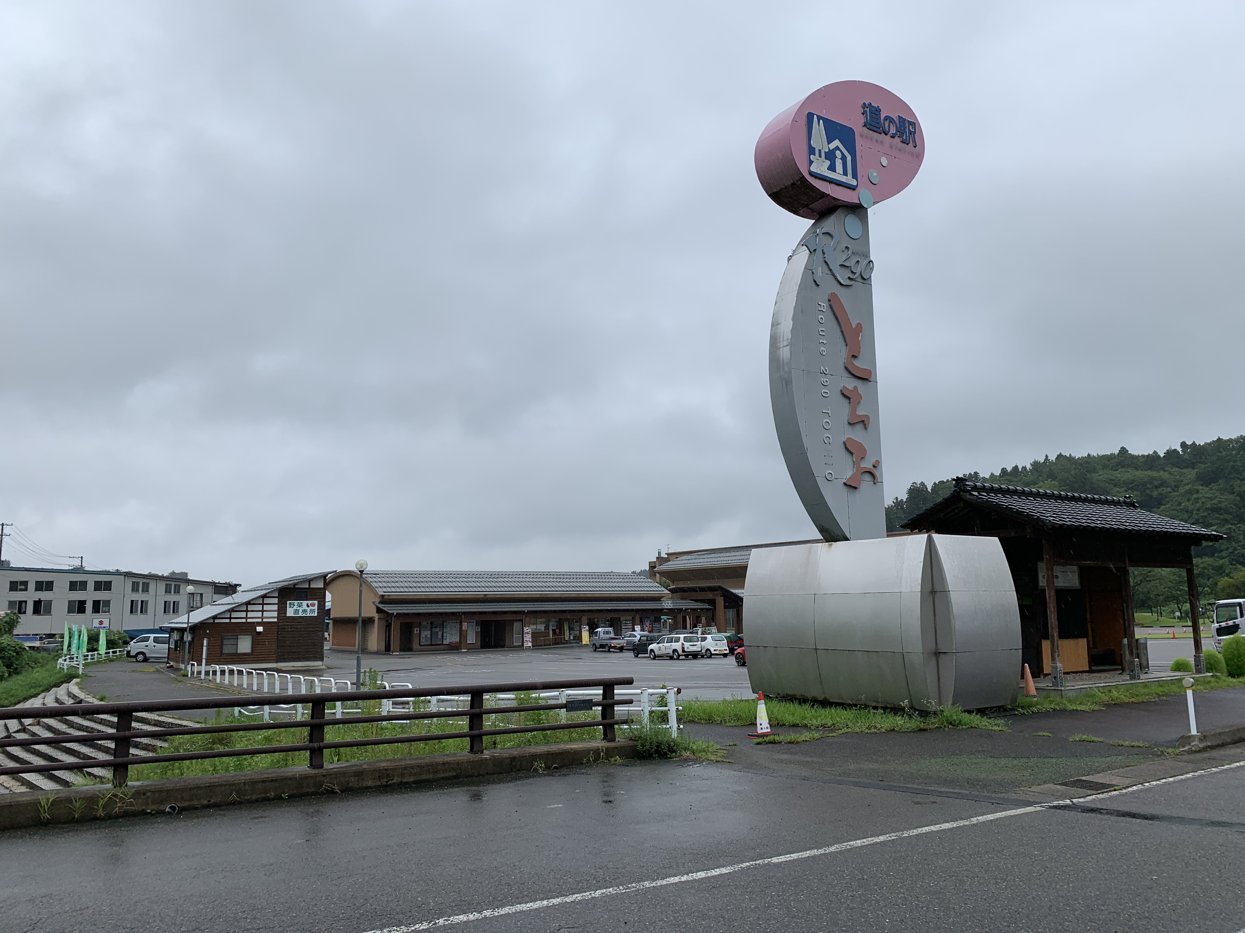 Route290 Tochio, Roadside Station, Niigata, Japan. Took photo in August 2019.